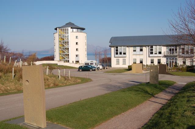 Sabhal Mòr Ostaig, near to Kilmore, Skye, Highland, Scotland. Colaiste Ghàidhlig na h-Alba. Founded in 1973, Sabhal Mòr Ostaig (The big barn at Ostaig) is an internationally recognised centre for the Gaelic language and culture. The college is a part of the University of the Highlands and Islands. Current student numbers are around 100 on full-time courses, about 160 on distance learning courses, and up to 900 on short courses each year. These are recent buildings that have been added to the original 'big barn'. There is more significant building work underway for the next phase of expansion. Àrainn oideachaidh air leth.